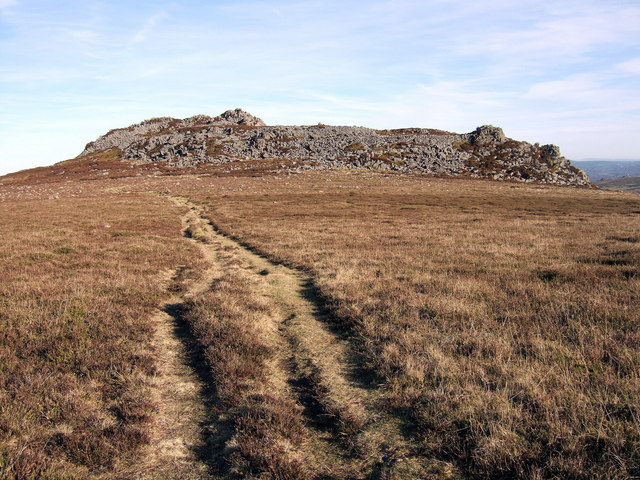 Carningli fort from Carningli common looking east This is the fortified summit of Mynydd Carningli viewed from the plateau known as Carningli Common, due west. The path, used by both sheep and people, leads towards Mynydd Caregog and Bedd Morys.